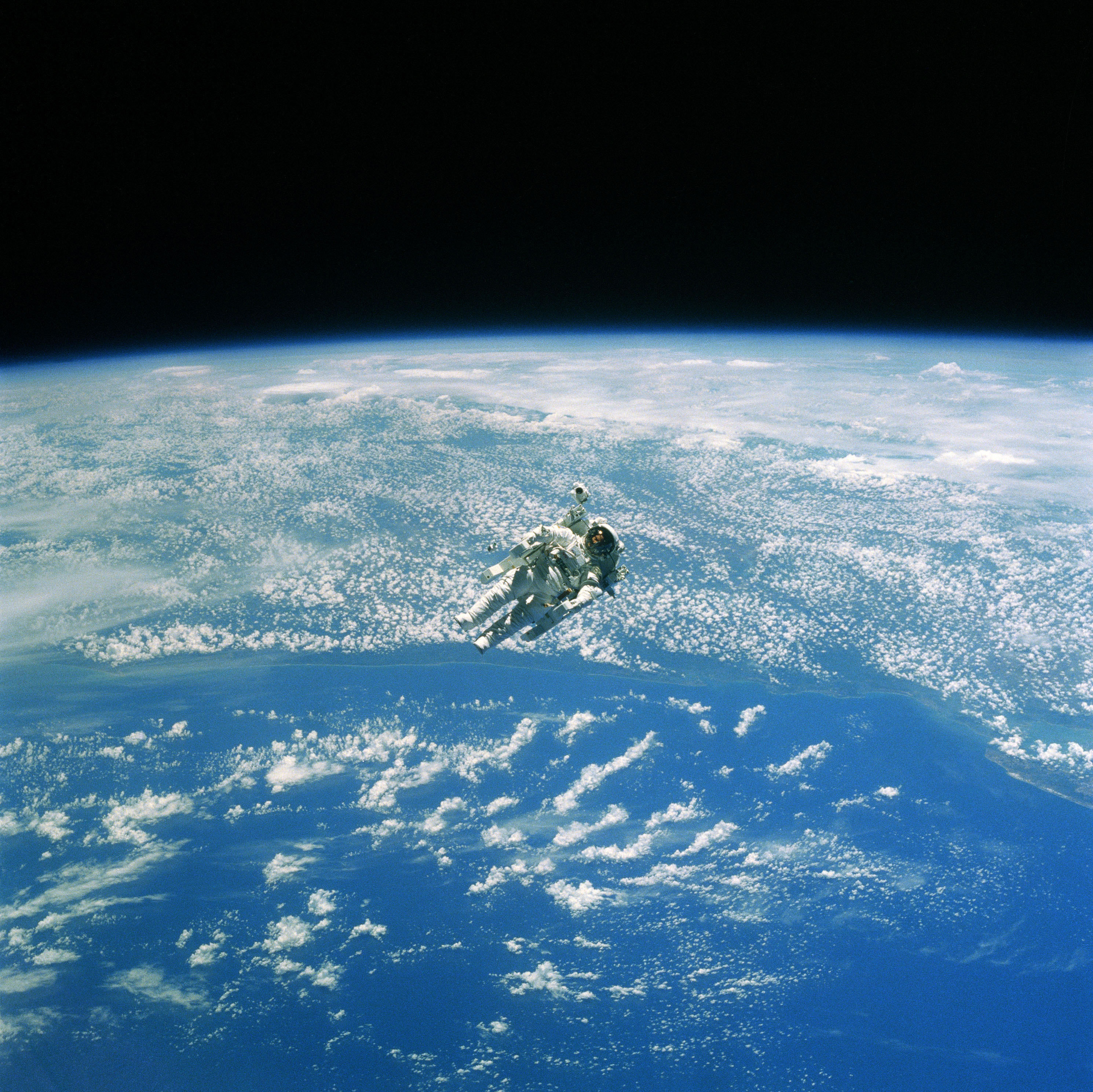 ID: DF-SC-84-10569, Service Depicted: Air Force - Astronaut Robert L. Stewart tests the nitrogen propelled, hand-controlled manned maneuvering unit (MMU) as part of an extravehicular activity (EVA) during Flight 41-B of the space shuttle Challenger. The MMU is a device which allows astronauts to move freely in space without a tether. Note that, although the metadata in this file indicates that the astronaut's name is "Robert C. Stewart", this is an error; his name is "Robert L. Stewart." NASA ID: S84-27033 National Archive: NN33300514